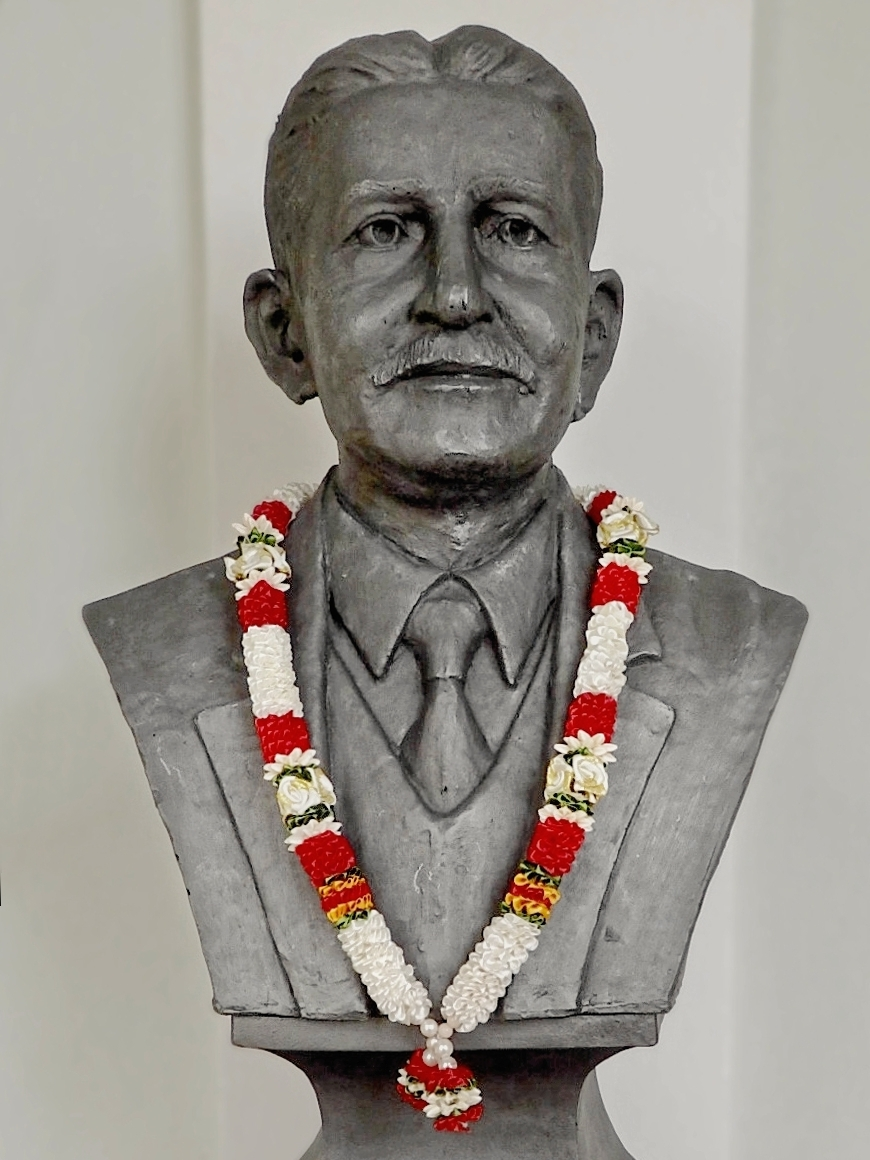 Gustav Hermann Krumbiegel (1865-1956) – the Maharadschas Gardener. Donated by the Mysore Horticultural Society 2015 Unknown artist, painted fibre glass, 2001